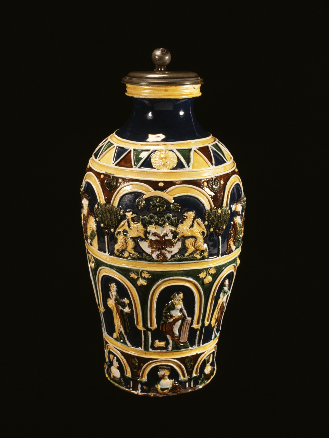 The decoration in bright enamel with arcaded friezes is typical of the earthenware produced by the prominent workshop of Paul Preuning in Nuremberg. The figures in relief are based on contemporary German prints and were created by pressing clay into shallow metal molds. They depict the well-rounded life: loyalty to the empire, personal virtue, and attention to personal satisfaction. The top row features a coat of arms with the double-headed eagle of the Holy Roman Empire with portraits of the German princes who elected the emperor. In the central row of personifications of the Virtues, we see Charity with two children and Temperance pouring water into her wine (based on engravings by Virgil Solis, 1514-62), while the bottom row includes personifications of the senses of smell and taste. The pewter lid is a replacement and bears the stamp of the Nuremberg pewter maker Andreas Spatz (active 1704-52).